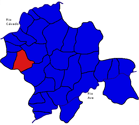 Map of Ferreiros in Povoa de Lanhoso, Portugal